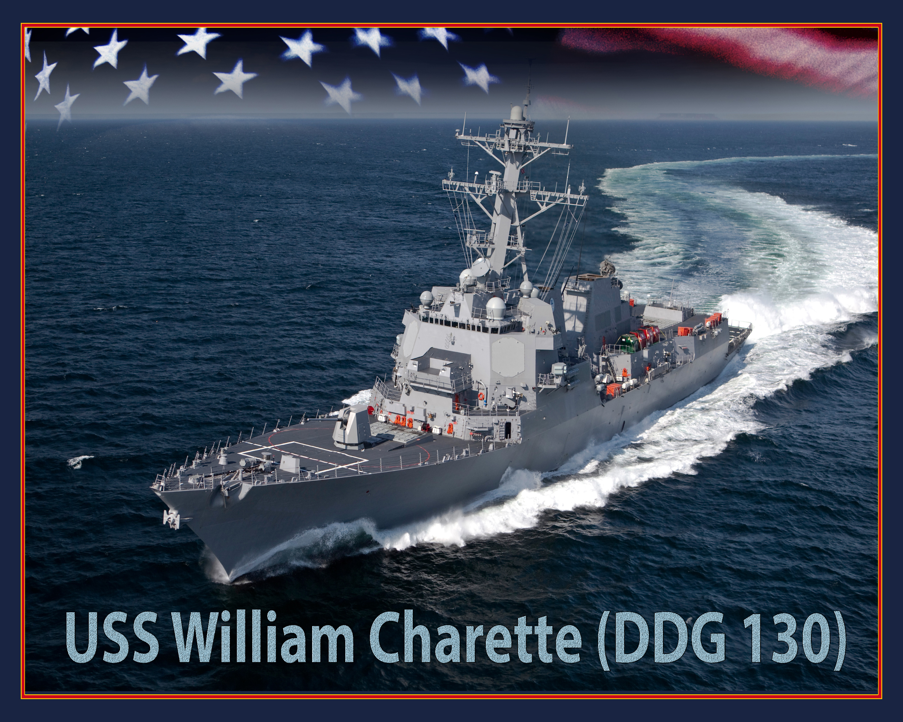 190318-N-DM308-001 WASHINGTON (March 18, 2019) An artist rendering of the future Arleigh Burke-class guided-missile destroyer USS William Charette (DDG 130). (U.S. Navy photo illustration/Released)